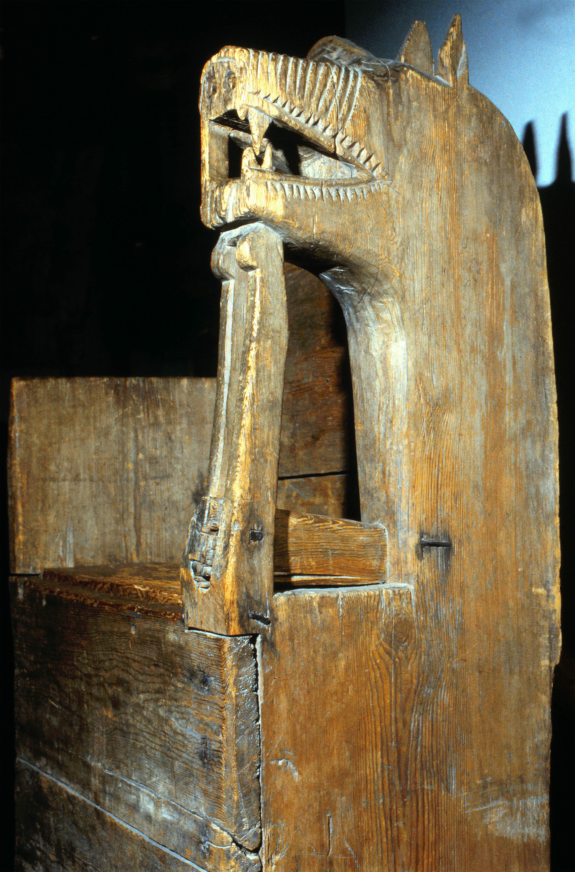 The chair from Suntak church, the oldest chair preserved in Sweden (from about 1100).